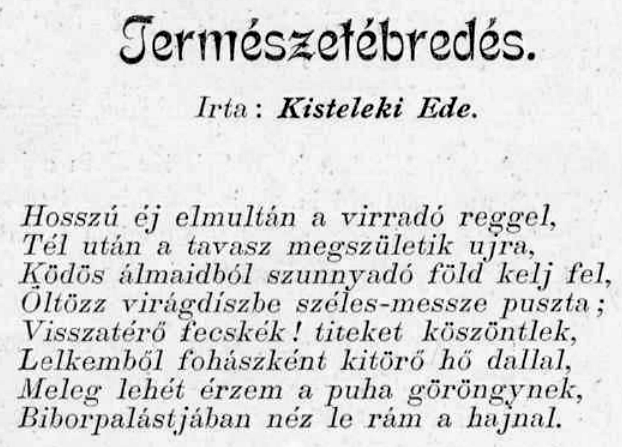 Poem of Kisteleki Ede